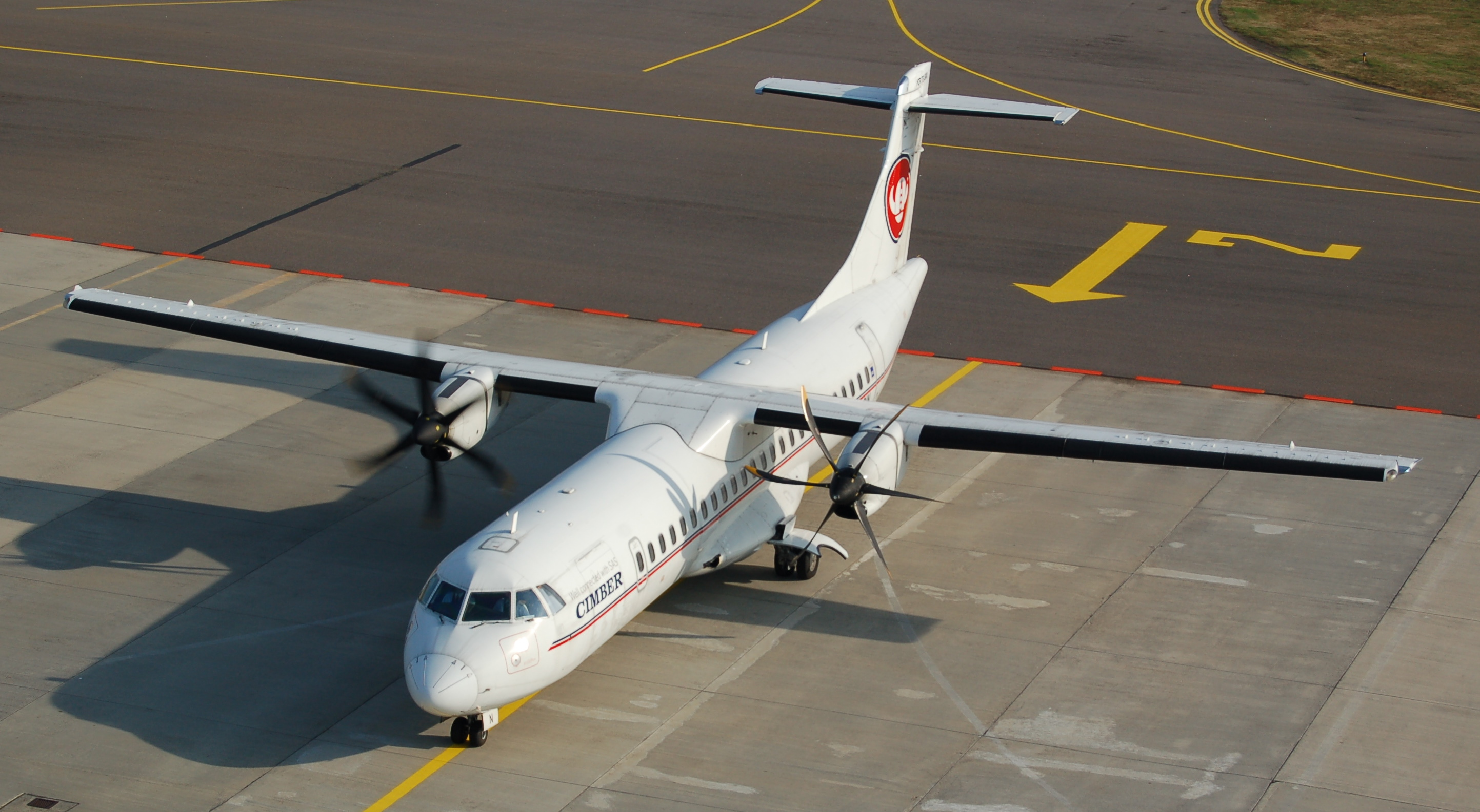 Photo of Cimber AIR OY-CIN (ATR 72-500) taxiing at EKRN (Bornholm airport)